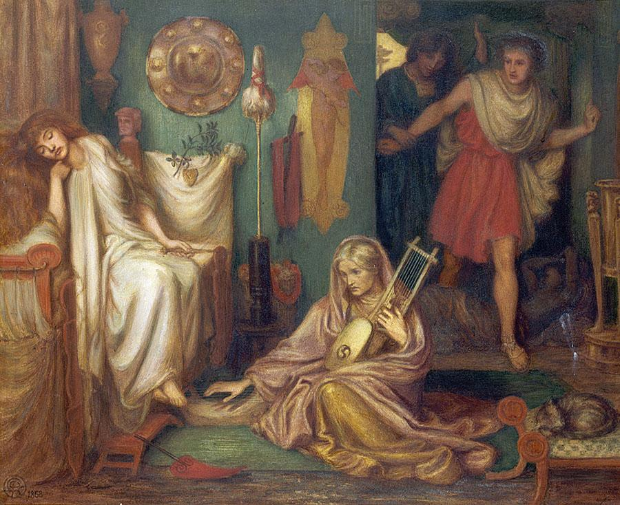 Rossetti depicts the passage in Tibullus (Elegies, I, 3, 82-92) when Tibullus bids to his mistress to await his return: 'Live chaste, dear love; and while I'm far away, Be some old dame thy guardian night and day. She'll sing thee songs, and when the lamp is lit, Fly the full rock and draw long threads from it, So, unannouced, shall I come suddenly, As 'twere a presence sent from heaven to thee. Then as thou art, all long and loose they hair, Run to me, Delia, run with thy feet bare.'